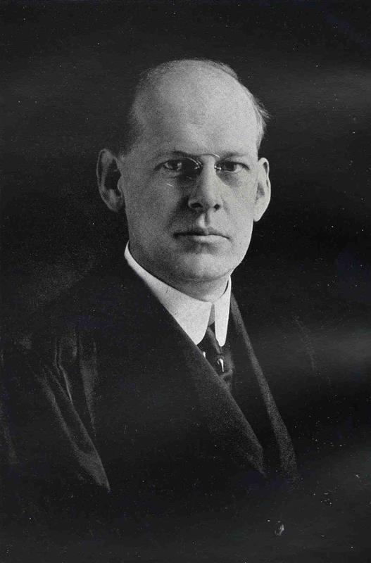 President Ernest Fox Nichols of Dartmouth College